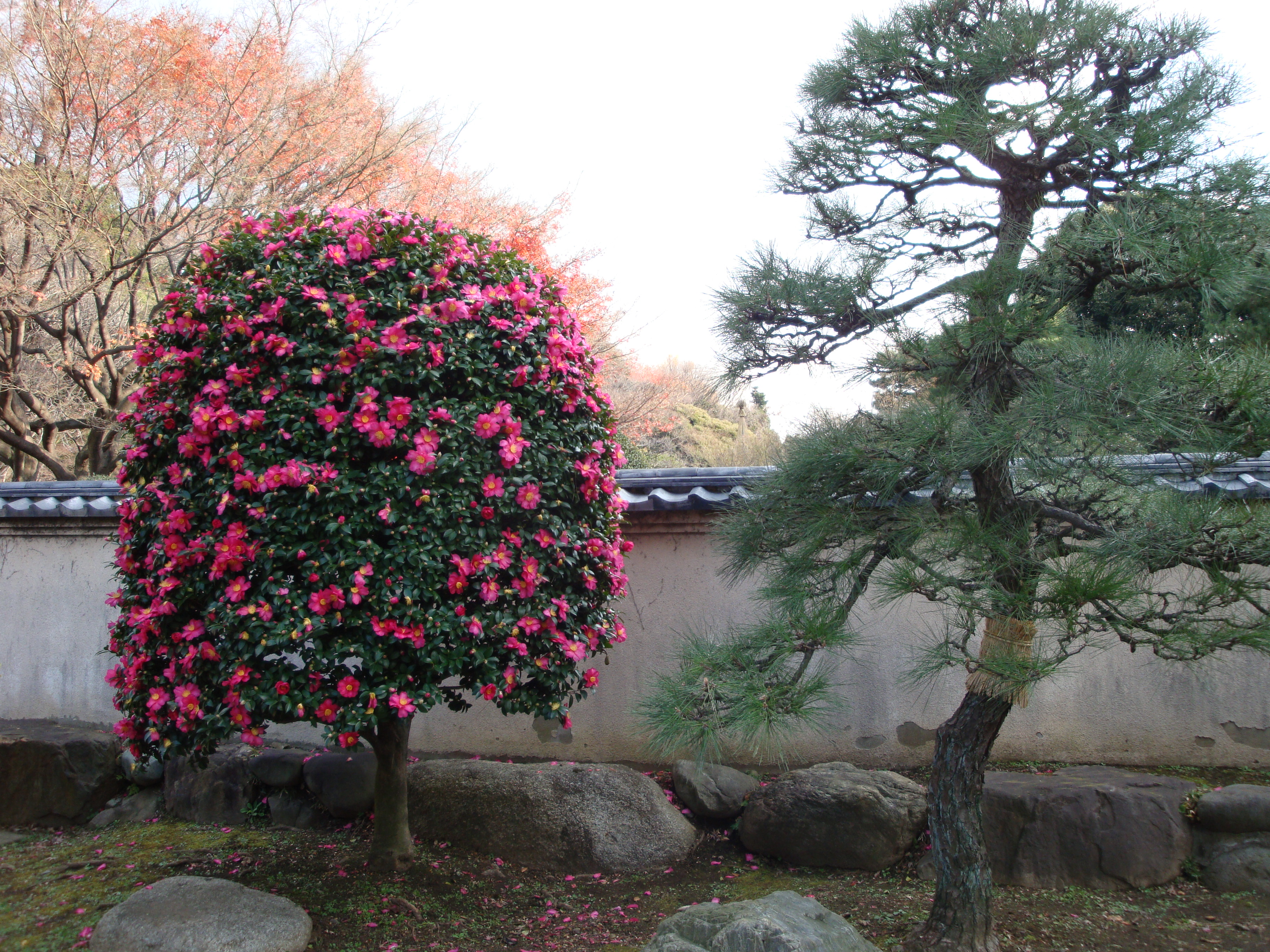 Shin-Edogawa Garden, Bunkyo, Tokyo